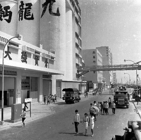 The Kowloon Flour Mills in 1966. The factory was still near the coast before the land reclamation for Kwun Tong Bypass.